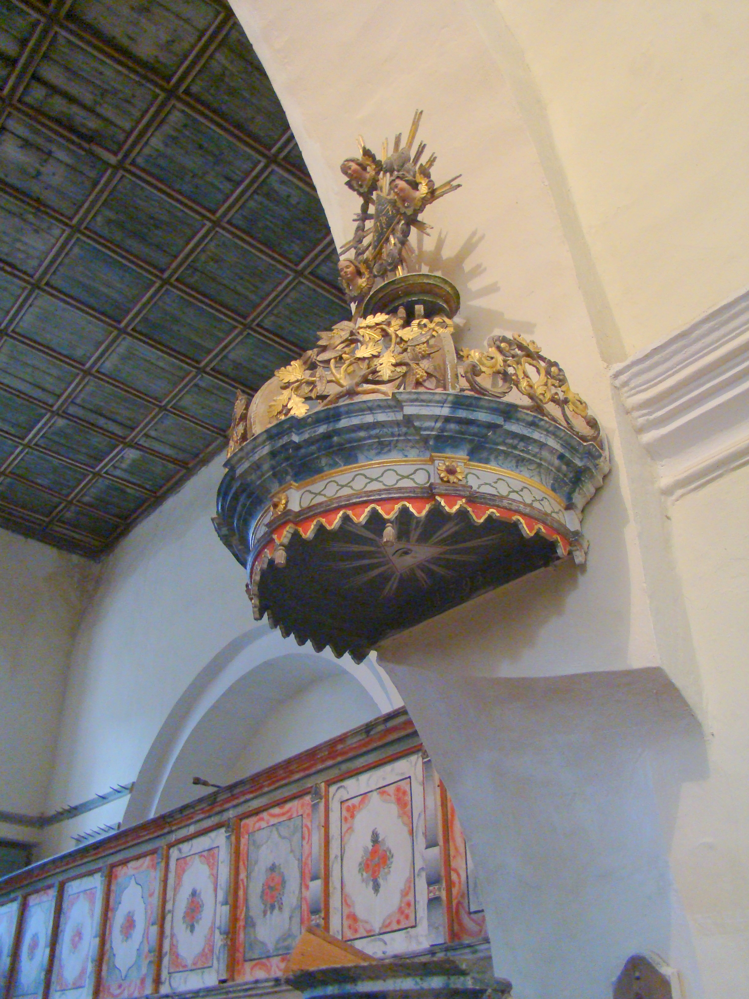 Fortified church in Homorod, Brașov County, Romania